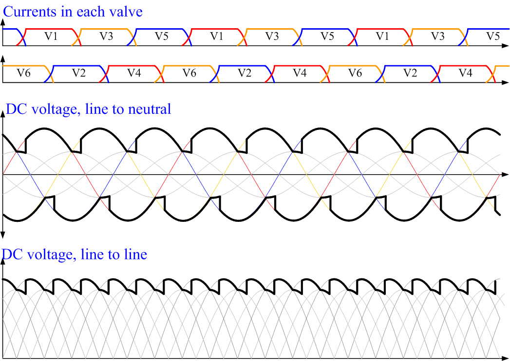 Voltage and current waveforms of a three-phase Graetz bridge rectifier, using diodes, or thyristors with a firing angle of 0 degrees, with an overlap angle of 20 degrees